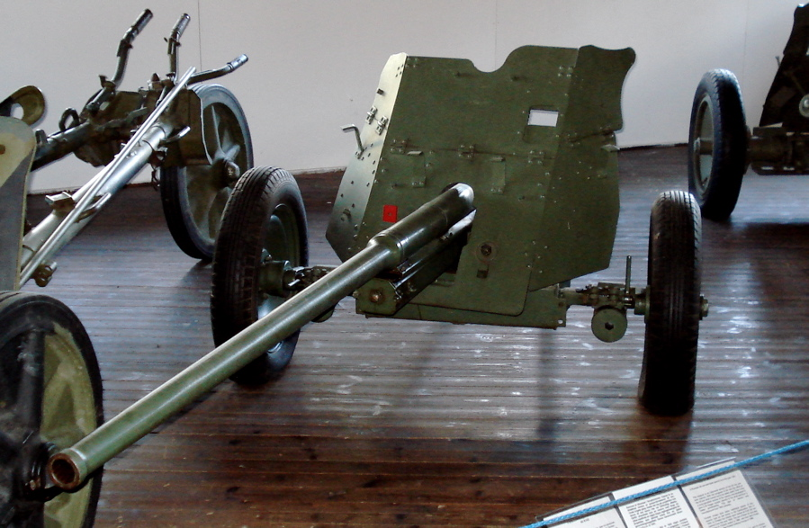 Soviet 45 mm Mark 1942 anti-tank gun, displayed in Finnish Tank Museum (Panssarimuseo) in Parola. Photo taken on July 14, 2006. Source: Photo by me, User:Balcer.